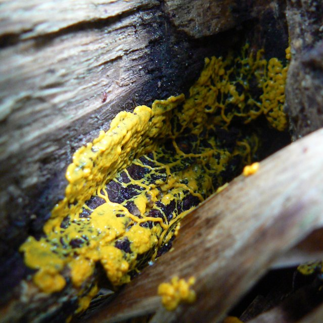 Slime Mould. A slime mould plasmodium, most likeley to be Fuligo septica. Further images and detailed information can be seen here: 920176 920190 510087